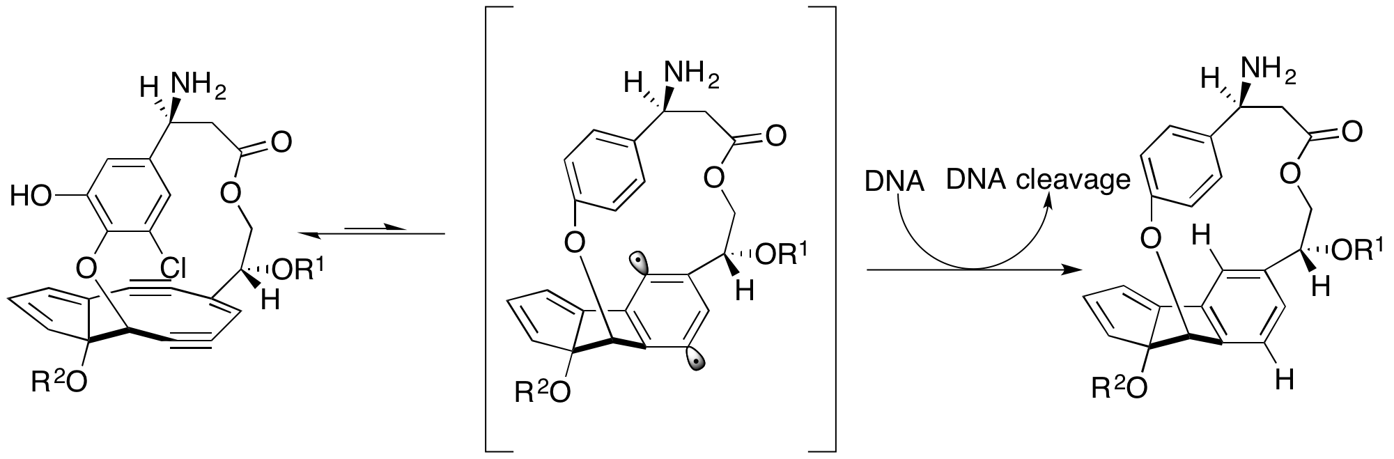 DNA cleavage caused by the C-1027 chromoprotein